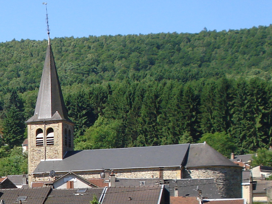 Church of Deville (Ardennes , Fr), detail of File:Vue sur Deville (Ardennes, Fr).JPG